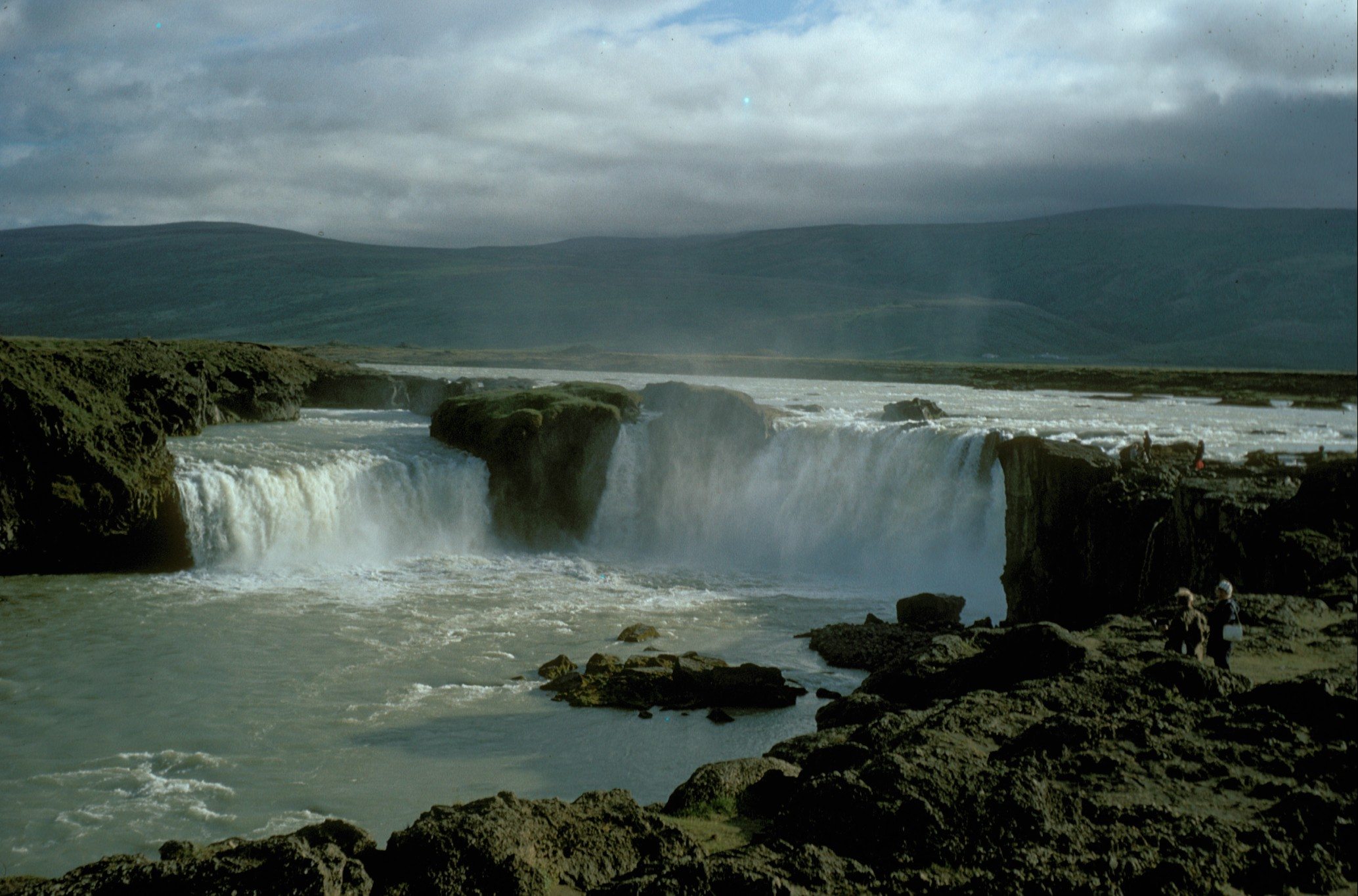 The Goðafoss (Icelandic: "waterfall of the gods", "waterfall of the goði") in Iceland on 30 Jul 1972. Picture taken and uploaded by Roger McLassus.